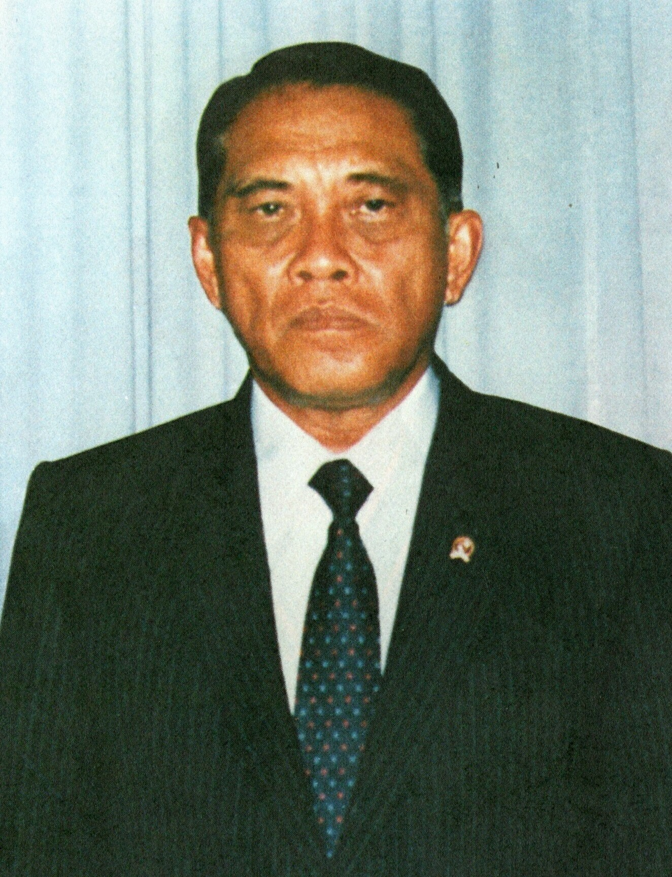 Portrait of Leonardus Benjamin Moerdani.